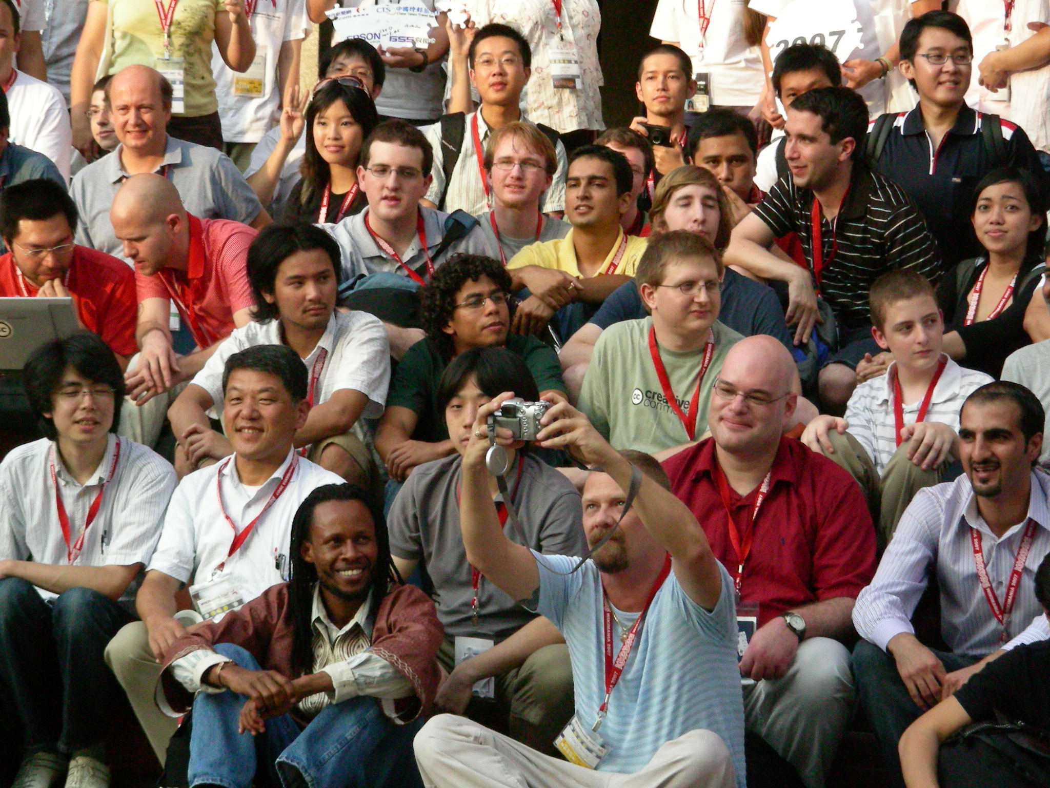 The group picture at the end of Wikimania 2007